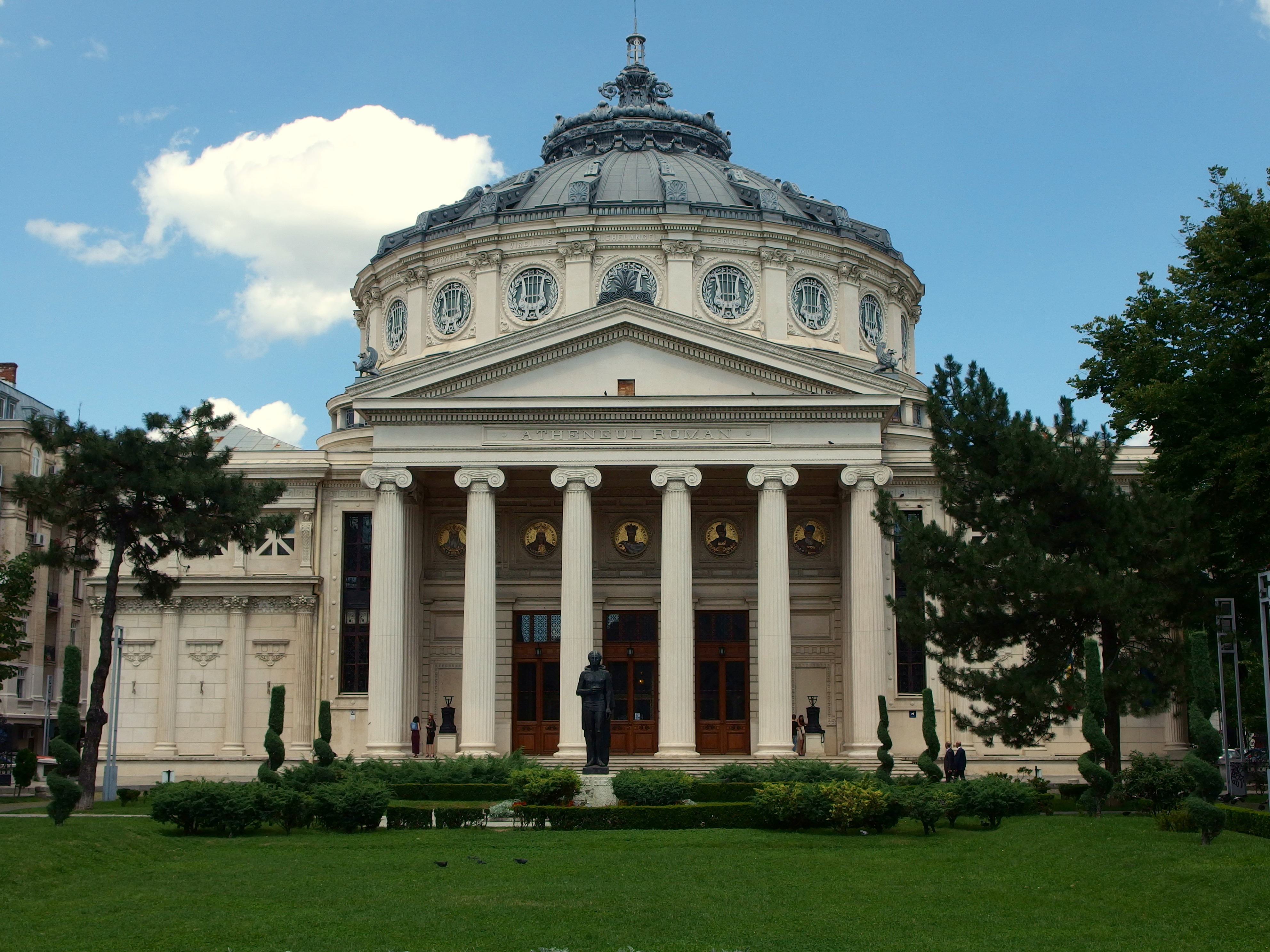 2014-07-02 in Bucureşti.